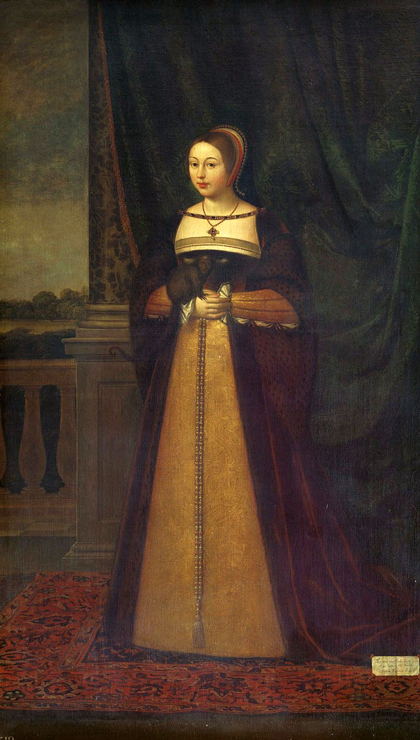 Posthumous portrait of Margaret Tudor (1489-1541), Queen consort of Scotland. Presumably copied from an earlier portrait.